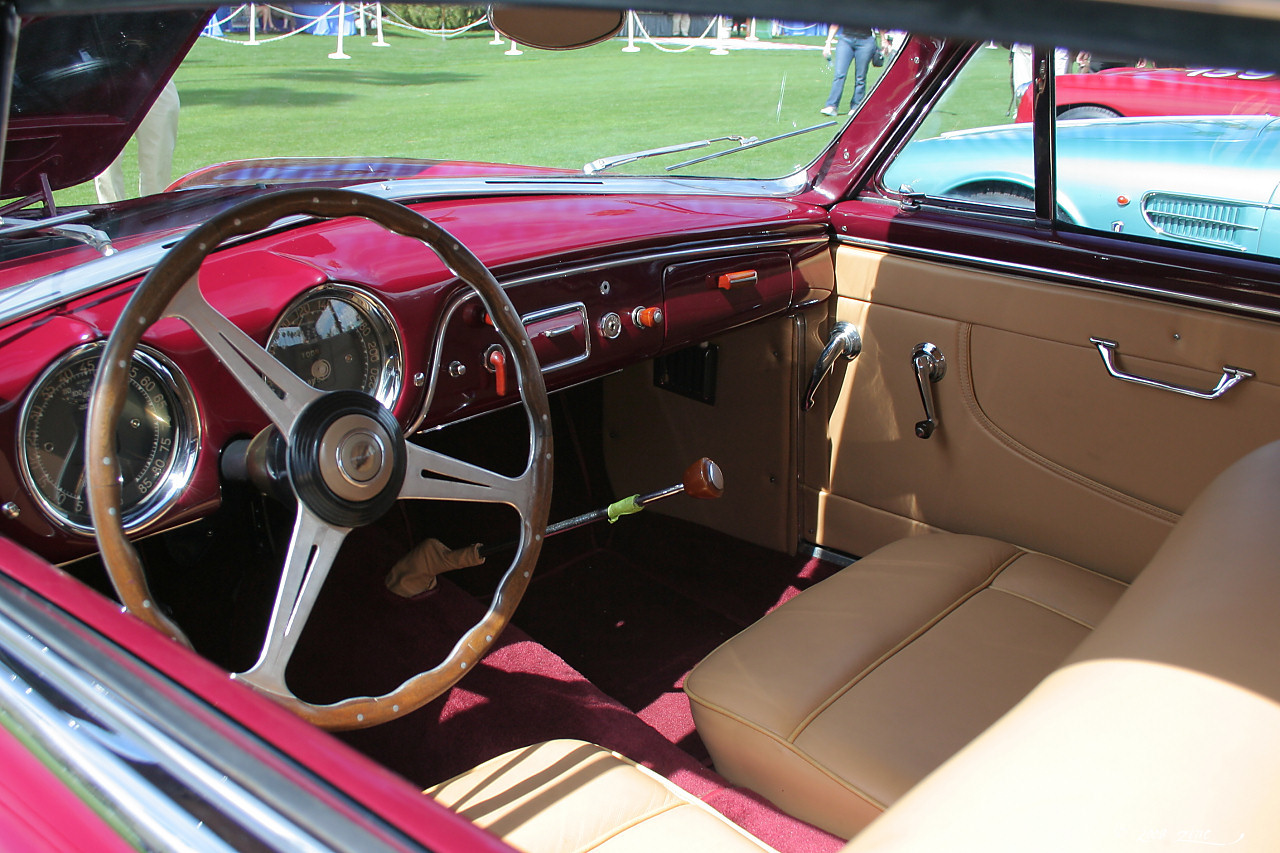 1951 Maserati A6G 2000 Coupé Pininfarina. 2008 Desert Classic Concours d'Elegance in Palm Springs, California.